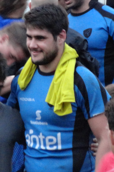 Uruguay's Teros vs United States rugby union match at the 2016 Americas Rugby Championship. Alejandro Nieto